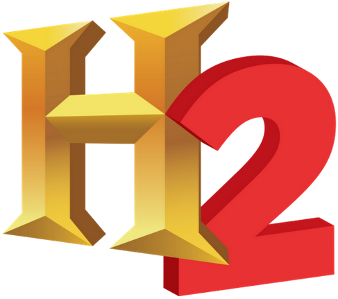 H2 logo,is a digital cable and satellite television channel that features historical documentaries, traditionally with an international focus. H2 offers over 200 hours of original programming; the network's current program schedule consists of reruns of documentary programming previously seen on sister channel History primarily from the mid-2000s onward, but not including the channel's reality television series.